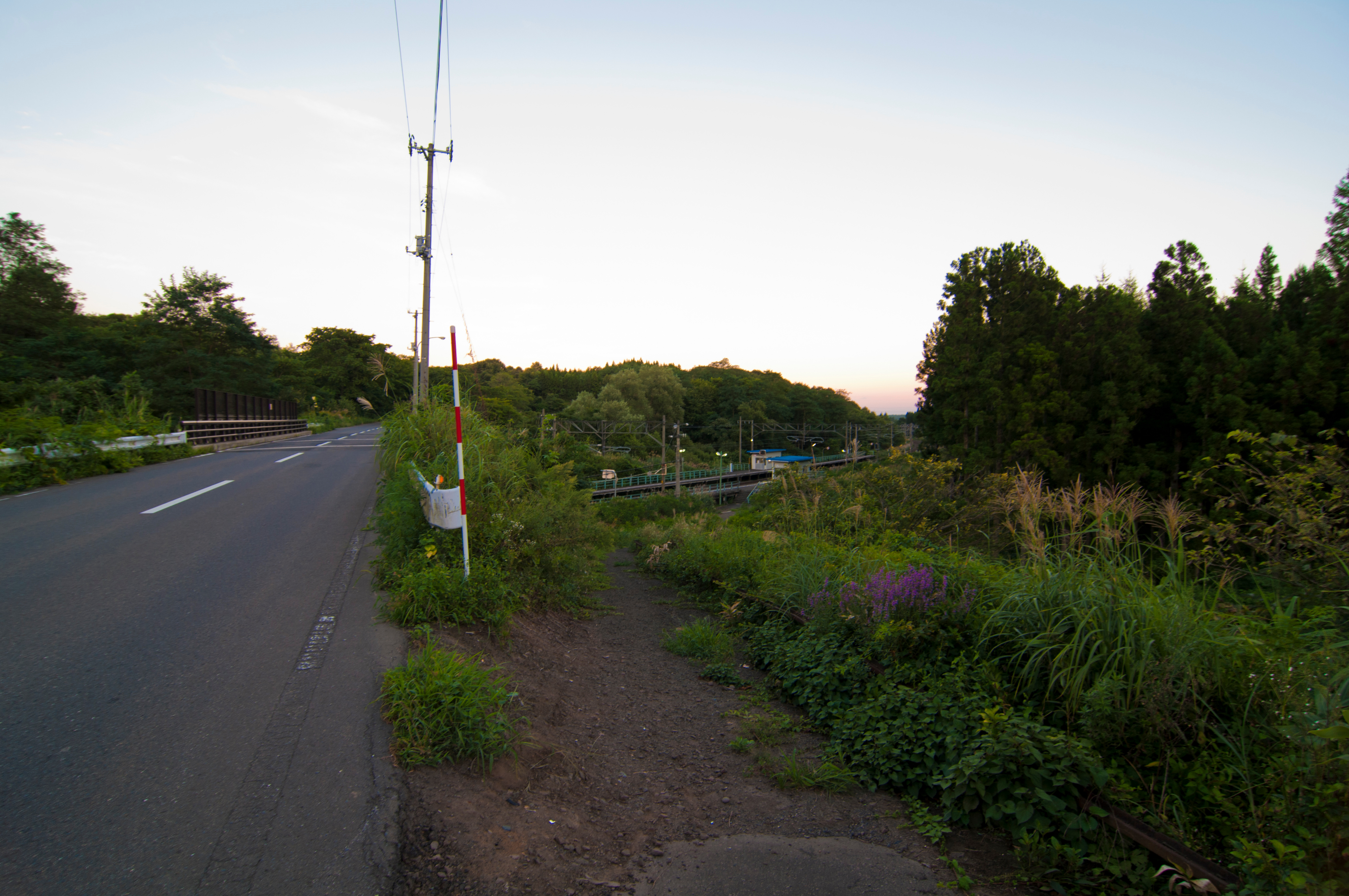 Chibiki Station of Aoimori Railway